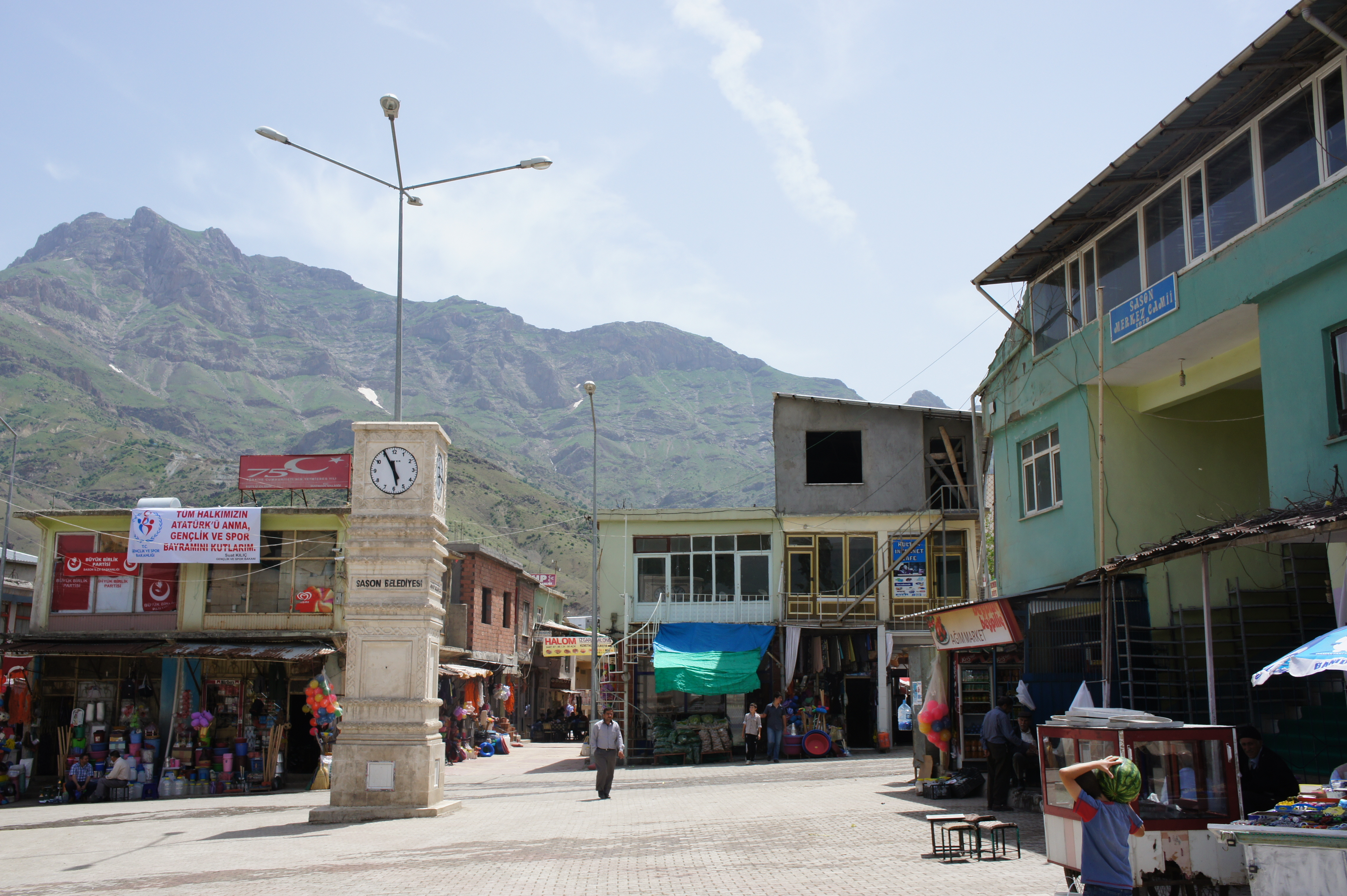 Center of Sason/Qabilcewz, Êlih/Batman. Kurdî: Navenda Sasonê (Qabilcewzê), Êlih.